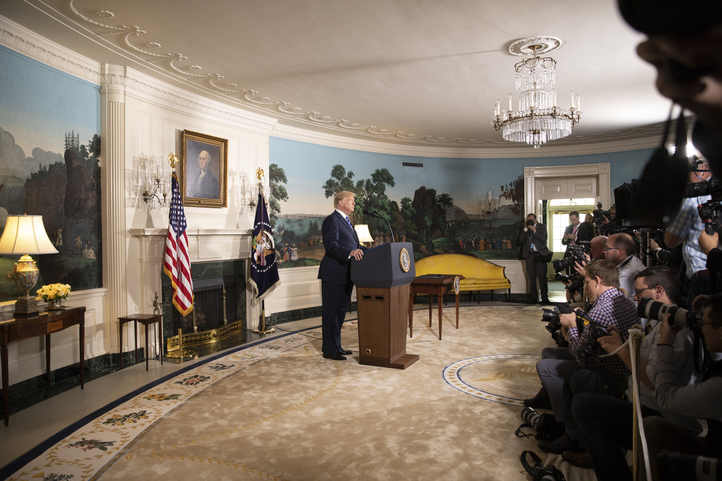 President Donald J. Trump delivers remarks on the Joint Comprehensive Plan of Action